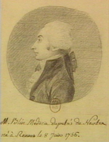 François-Pierre Blin (1756-1834), French deputy in 1789-1791